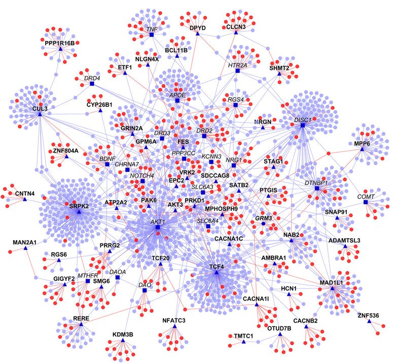 Schizophrenia interactome: network view of the schizophrenia interactome is shown as a graph, where genes are shown as nodes and PPIs as edges connecting the nodes. Schizophrenia-associated genes are shown as dark blue nodes, novel interactors as red color nodes and known interactors as blue color nodes. The source of the schizophrenia genes is indicated by its label font, where Historic genes are shown italicized, GWAS genes are shown in bold, and the one gene that is common to both is shown in italicized and bold. For clarity, the source is also indicated by the shape of the node (triangular for GWAS and square for Historic and hexagonal for both). Symbols are shown only for the schizophrenia-associated genes; actual interactions may be accessed on the web. Red edges are the novel interactions, whereas blue edges are known interactions. GWAS, genome-wide association studies of schizophrenia; PPI, protein–protein interaction. Source